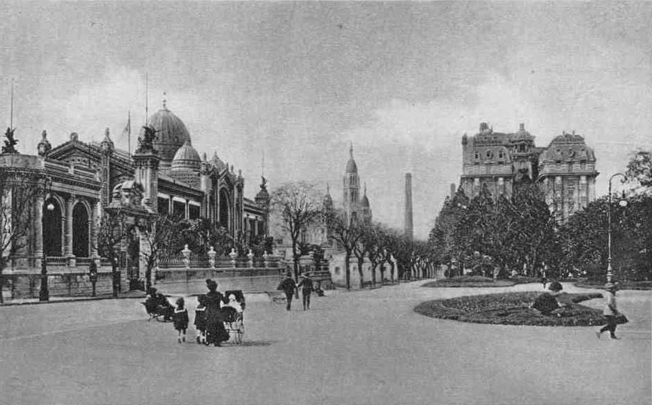 View of the Plaza San Martín from Arenales street to south. At left, the Argentine Pavillion built in 1899, then seat of National Museum of Fine Arts, which was demolished in 1933 to expand the park. At the background, the Santísimo Sacramento Basilica tower (1916) along with a chimmey. At right, the Plaza Hotel, inaugurated in 1909.